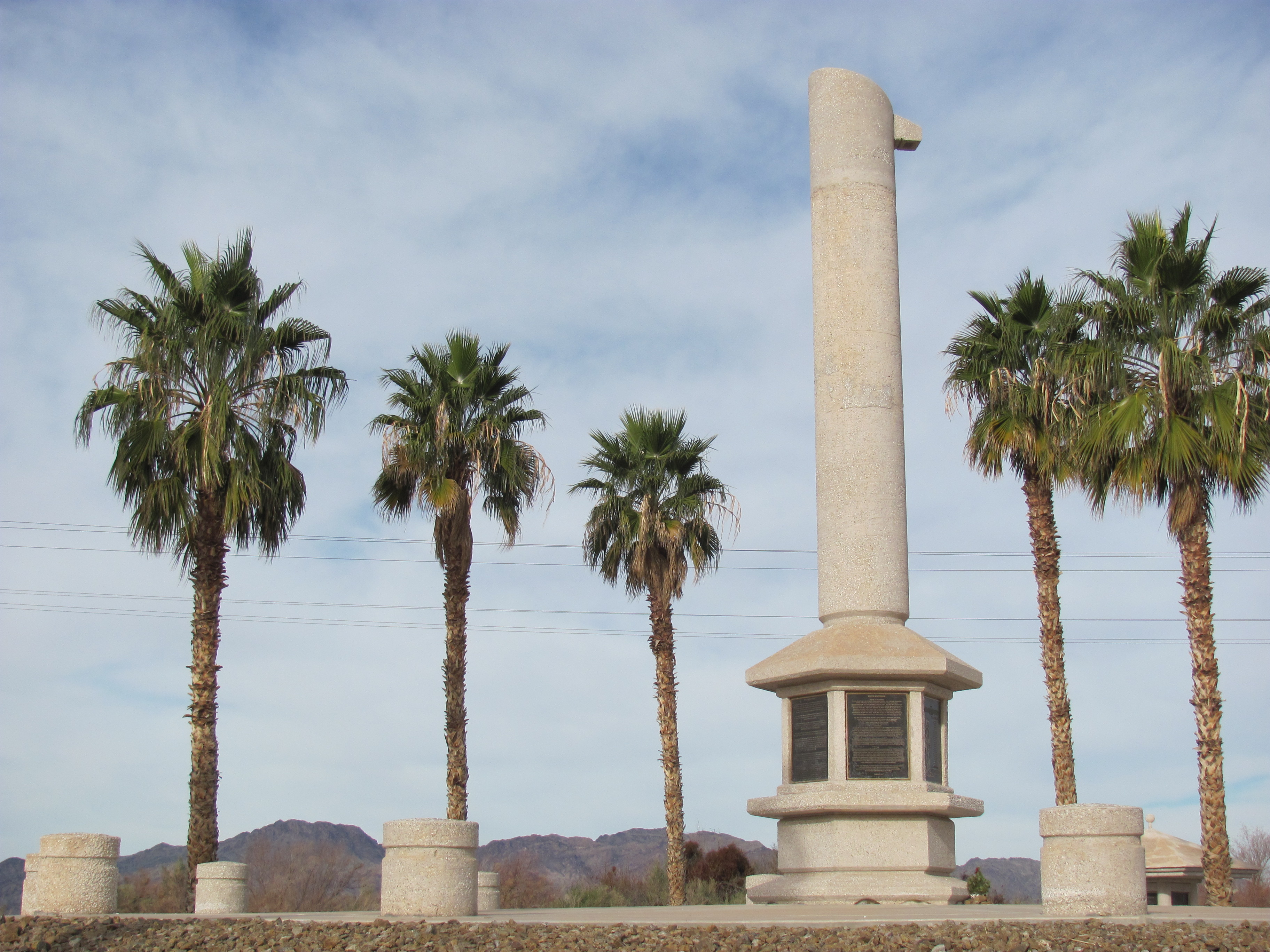 Poston War Relocation Center Memorial Monument. (A high resolution, expandable photo). Note:, shadows show about a noon-time photo looking approximately northwest; the mountains shown are therefore a northern section of the 7-mi long (11-km) Riverside Mountains. The Memorial is located about 1 mi south of Poston, Arizona center, and about the center region of the Parker Valley. The Memorial is about 5-mi from the Riverside Mountains.